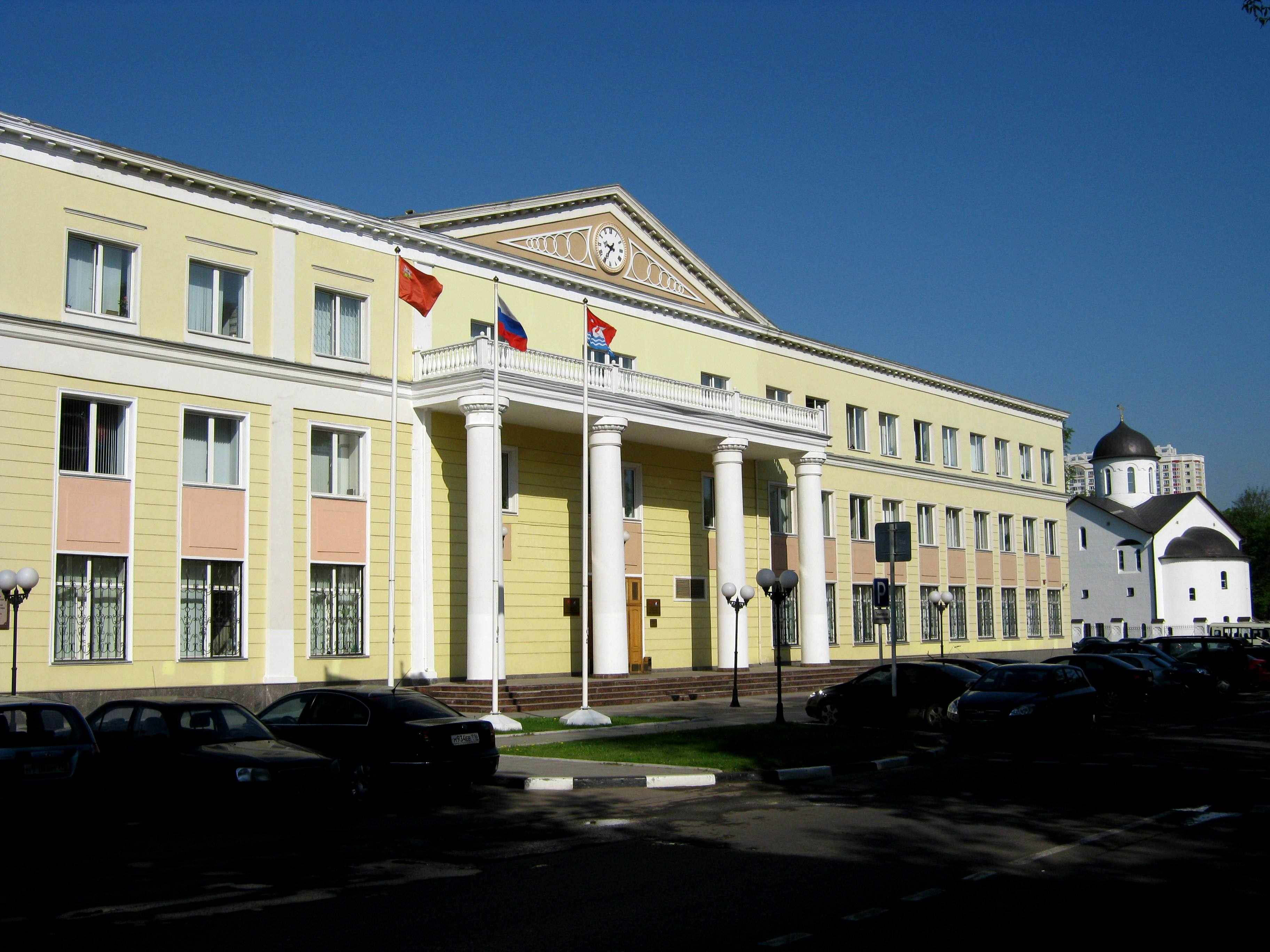 Здание администрации (Долгопрудный)